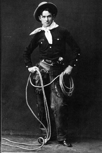 Will Rogers (19th century photo)